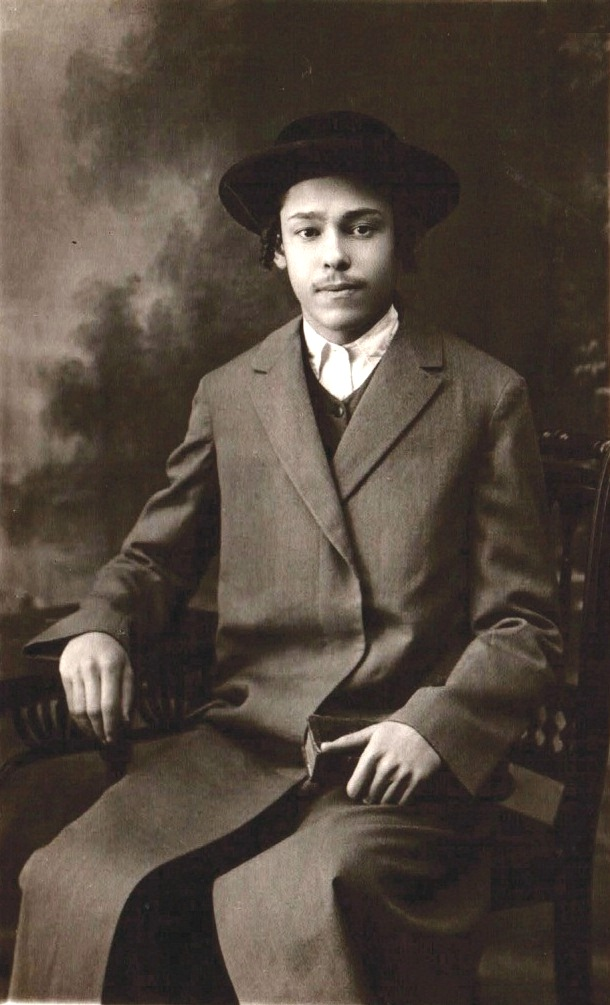 An early photograph of Rabbi Yosef Shalom Elyashiv